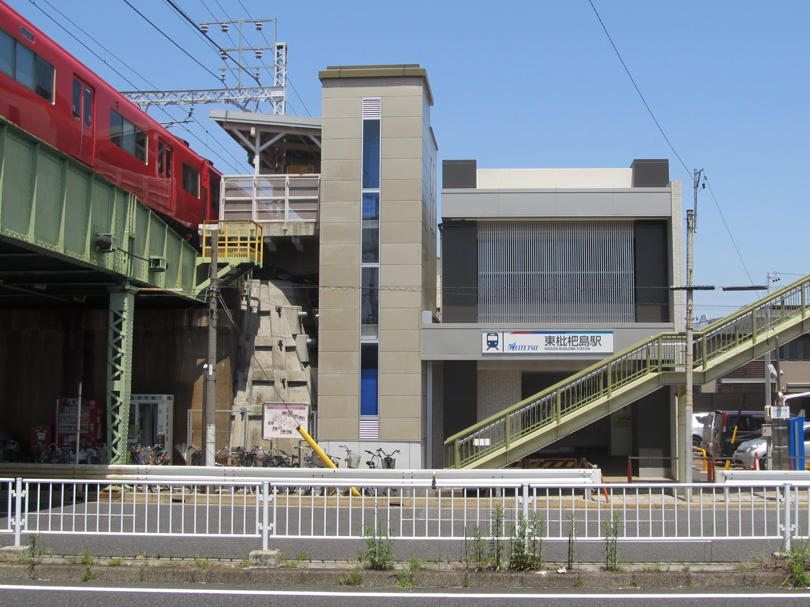 Nagoya Railroad Nagoya Main Line Higashi Biwajima Station Building